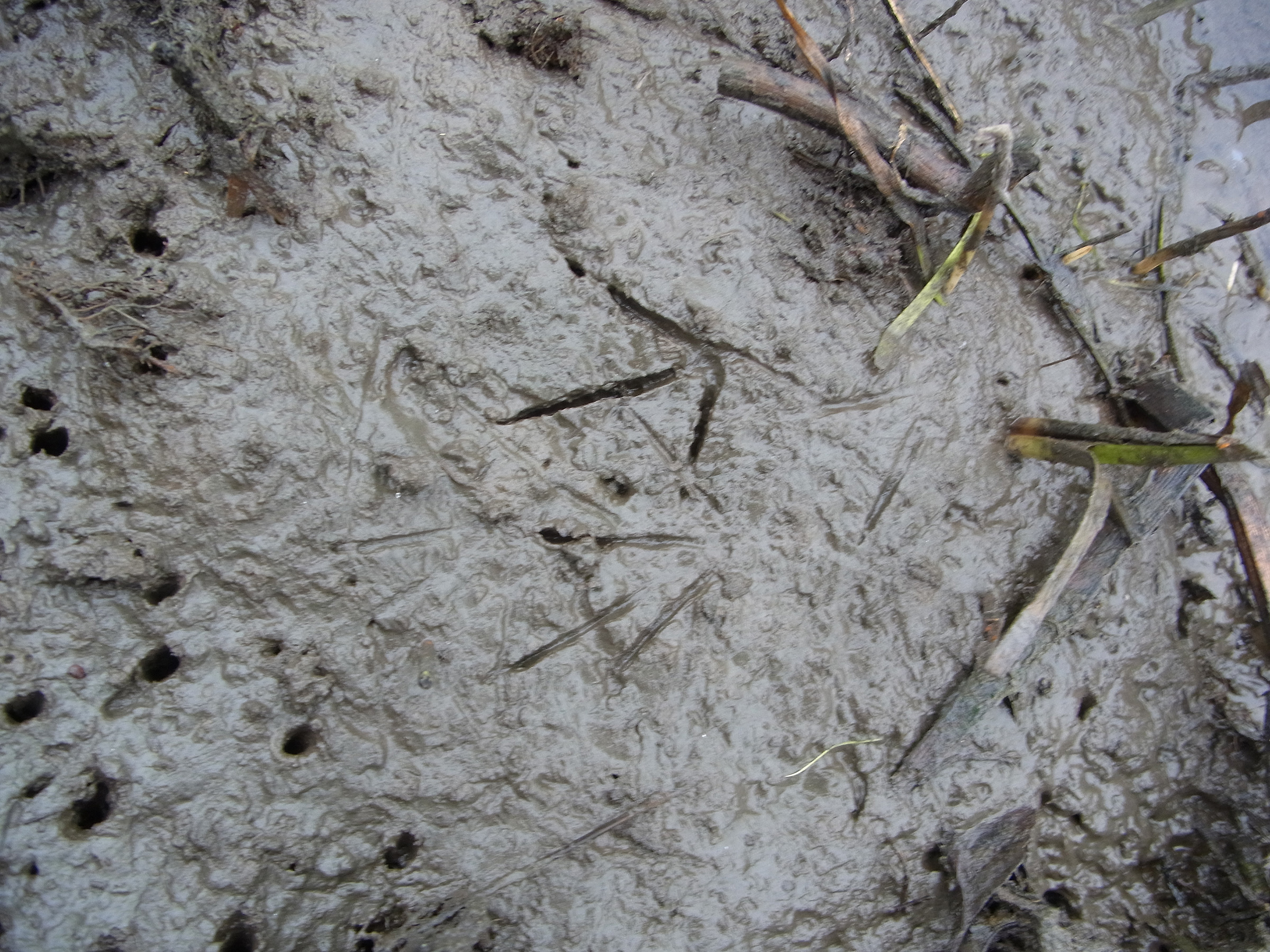 Footprints and probing holes made by a Jack Snipe (Lymnocryptes minimus)